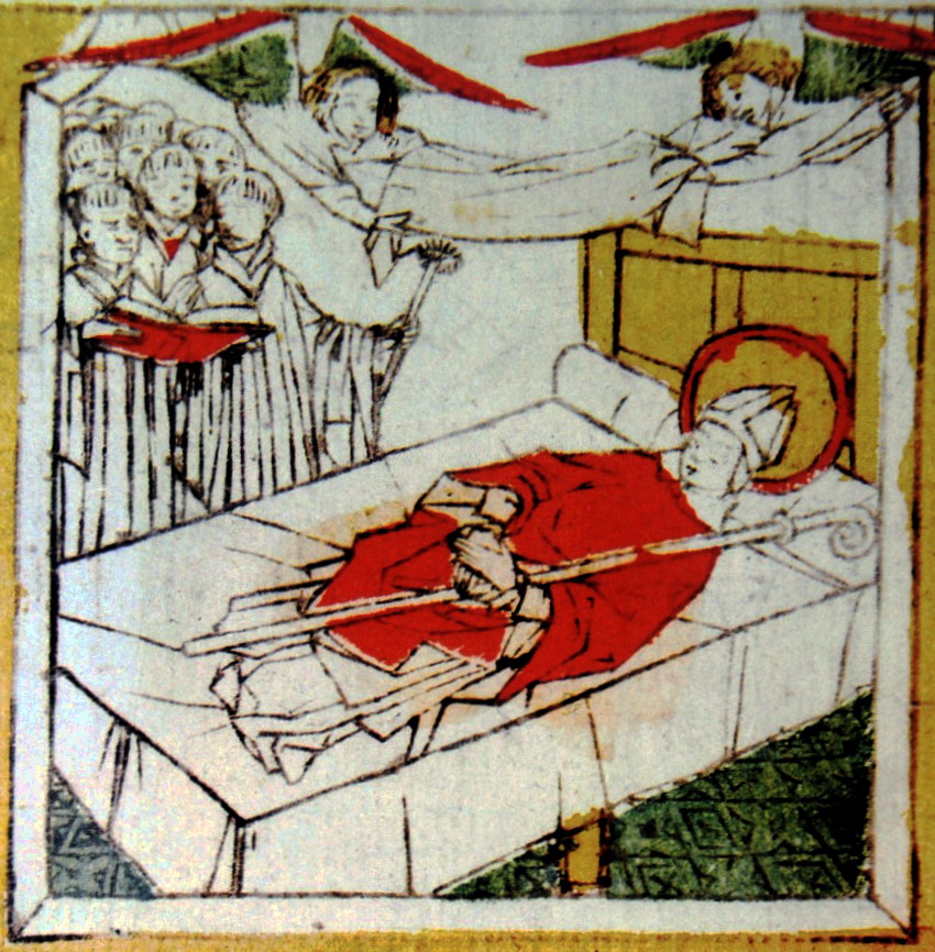 Scene from the life of Saint Servatius according to legend. Here: Death of Servatius in Maastricht, angels covering him 'heavenly cloths'. Drawing in a manuscript of ±1460 of the so-called Blokboek van Sint Servaas (Brussels, Royal Library)